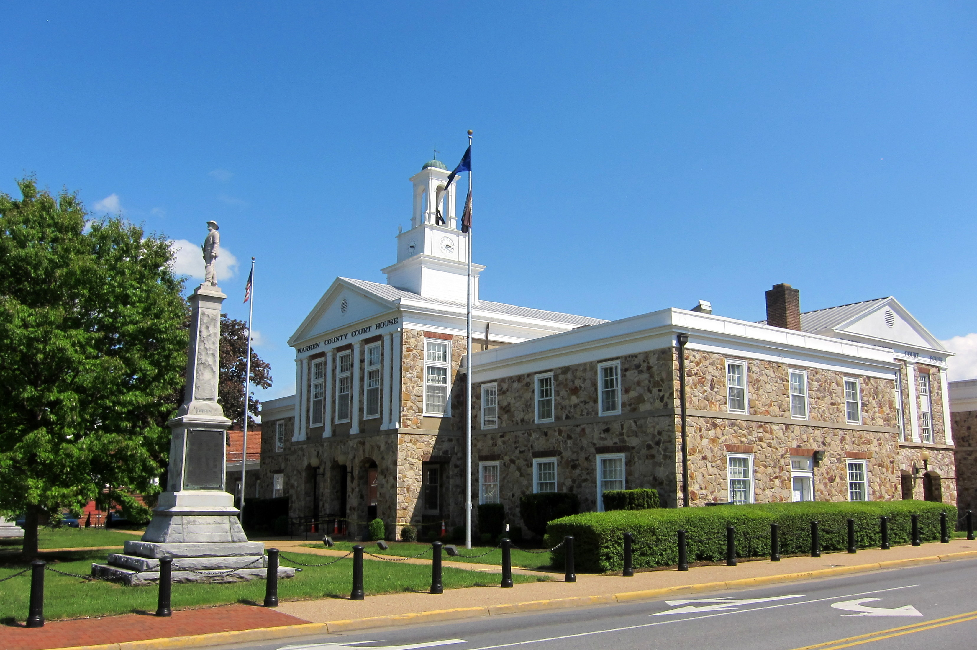 Warren County Courthouse in Front Royal, Virginia, United States. A Confederate monument dedicated in 1911 is on the left.